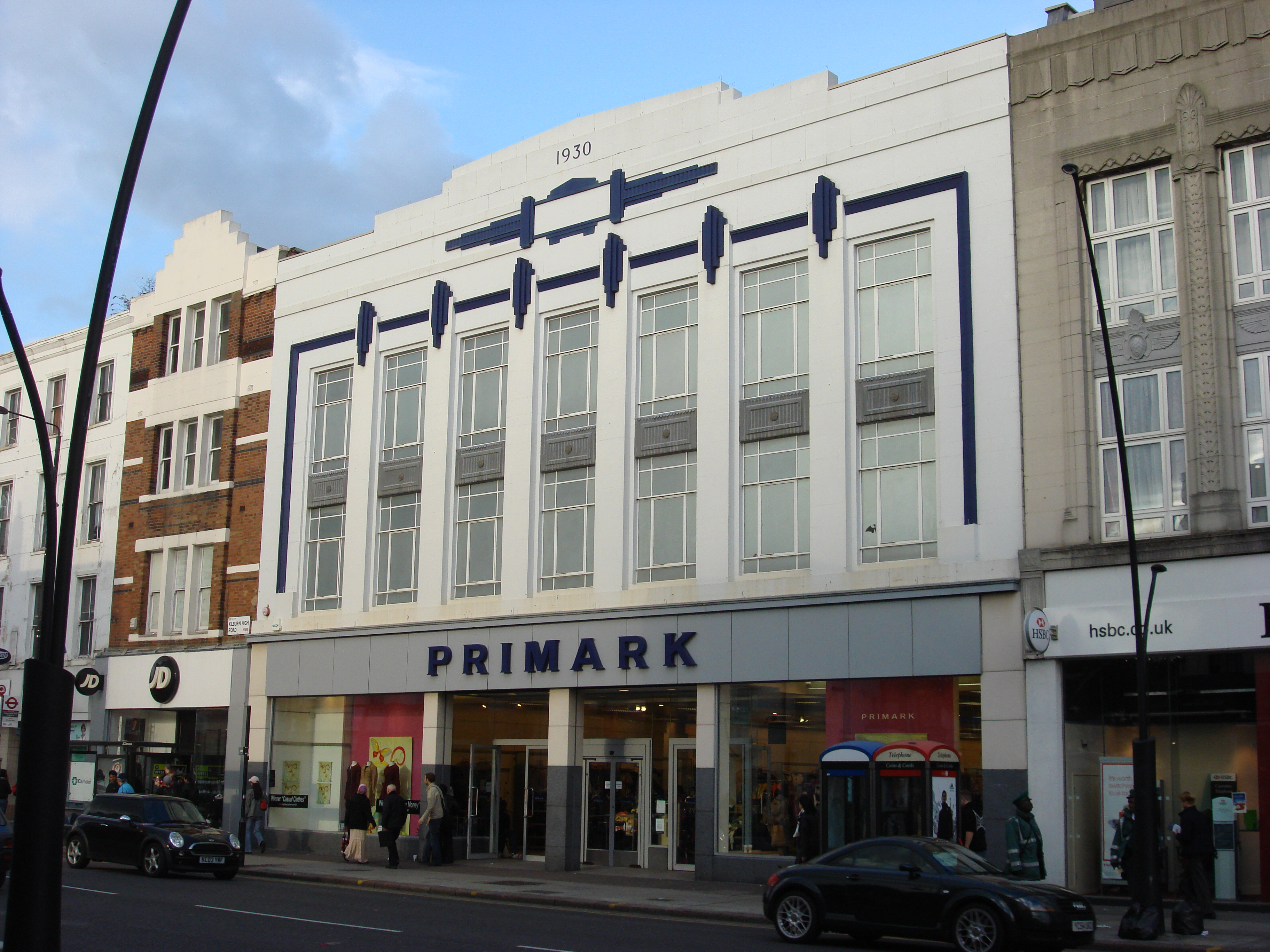 Primark, Kilburn, London, UK